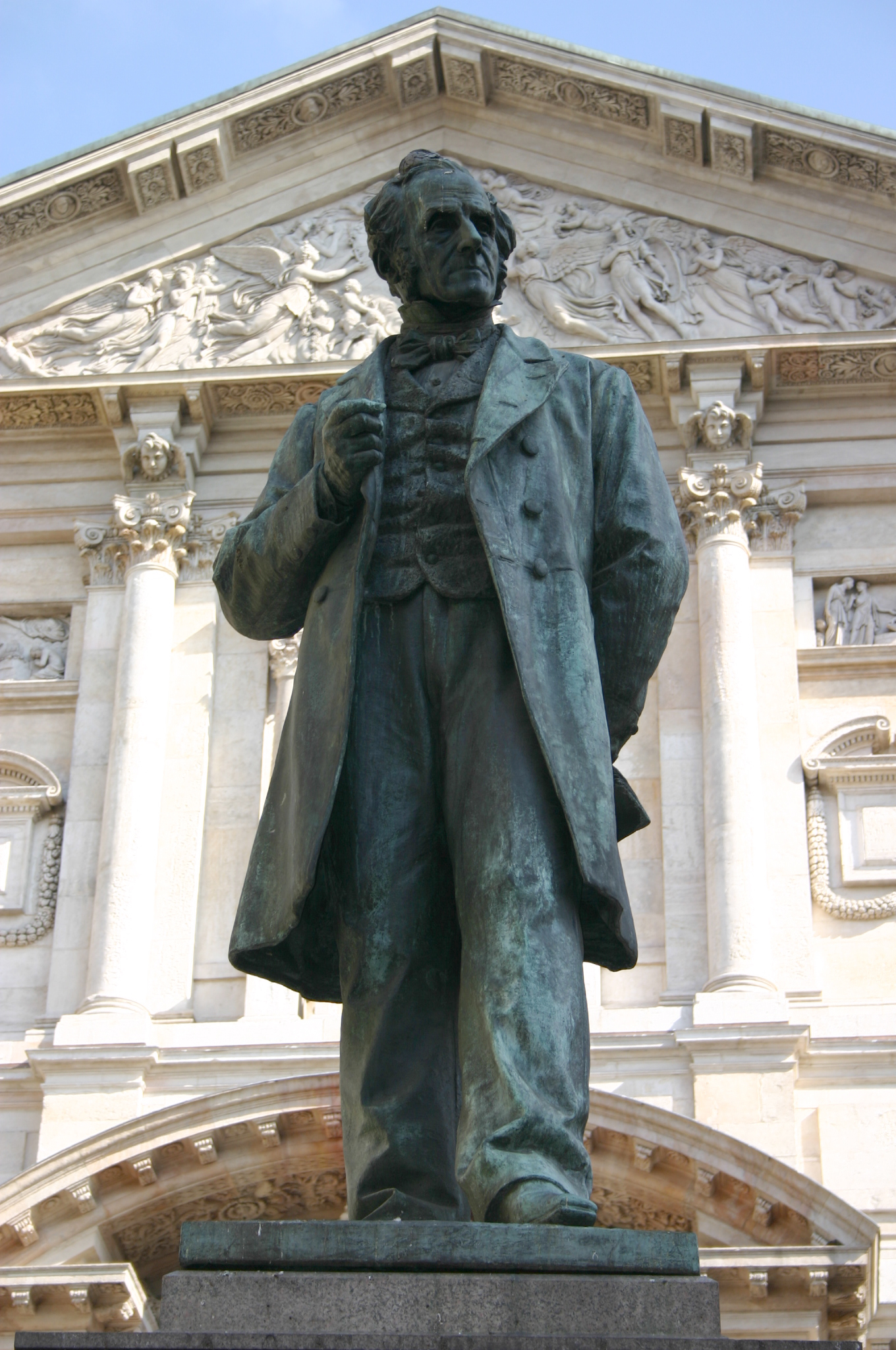 The bronze monument to italian writer Alessandro Manzoni in san Fedele square in Milan, Italy. It was modelled by Francesco Barzaghi and erected in 1883. Picture by Giovanni Dall'Orto, March 8 2007.